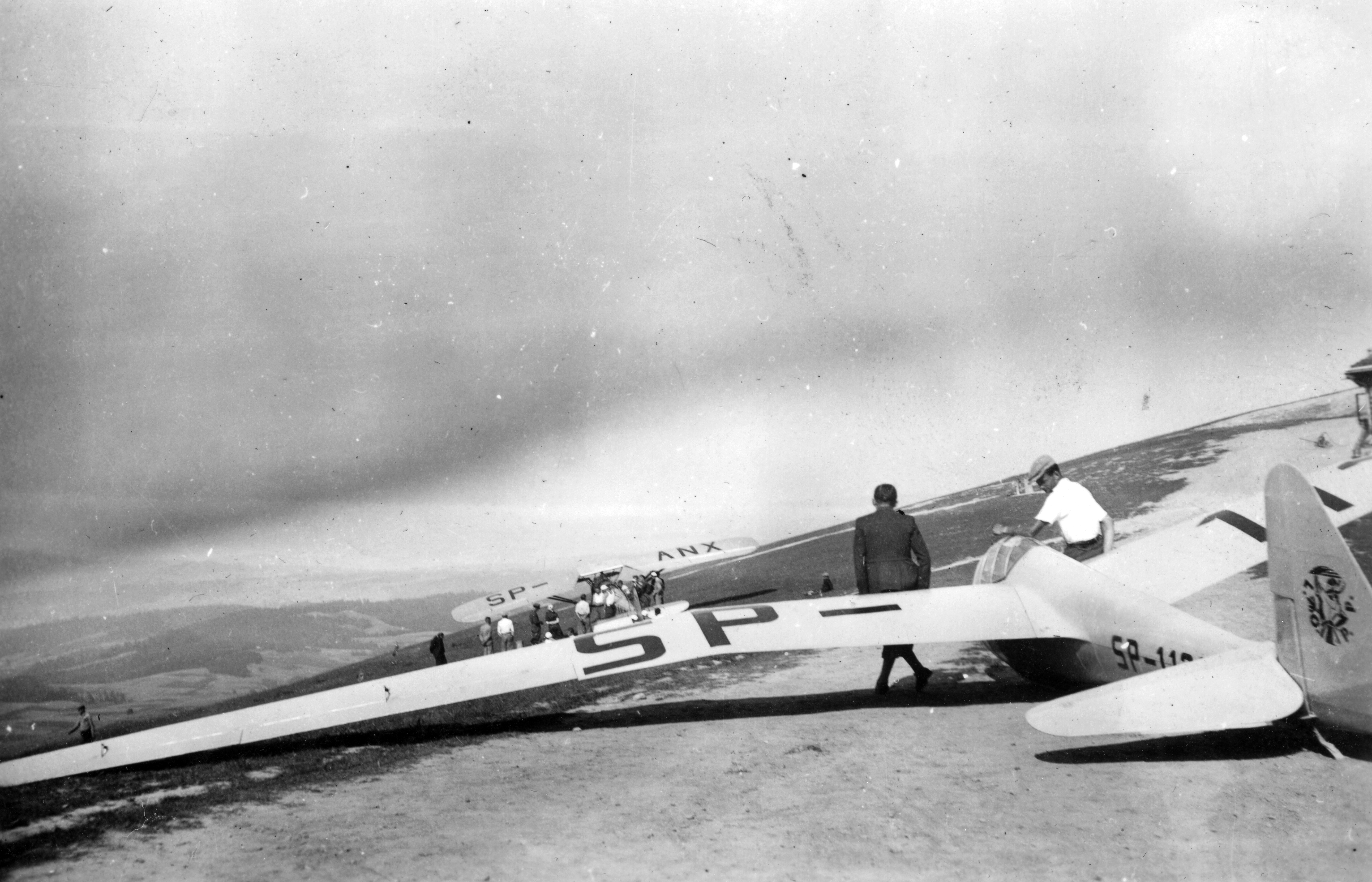 A Warsztaty Szybowcowe Orlik II (